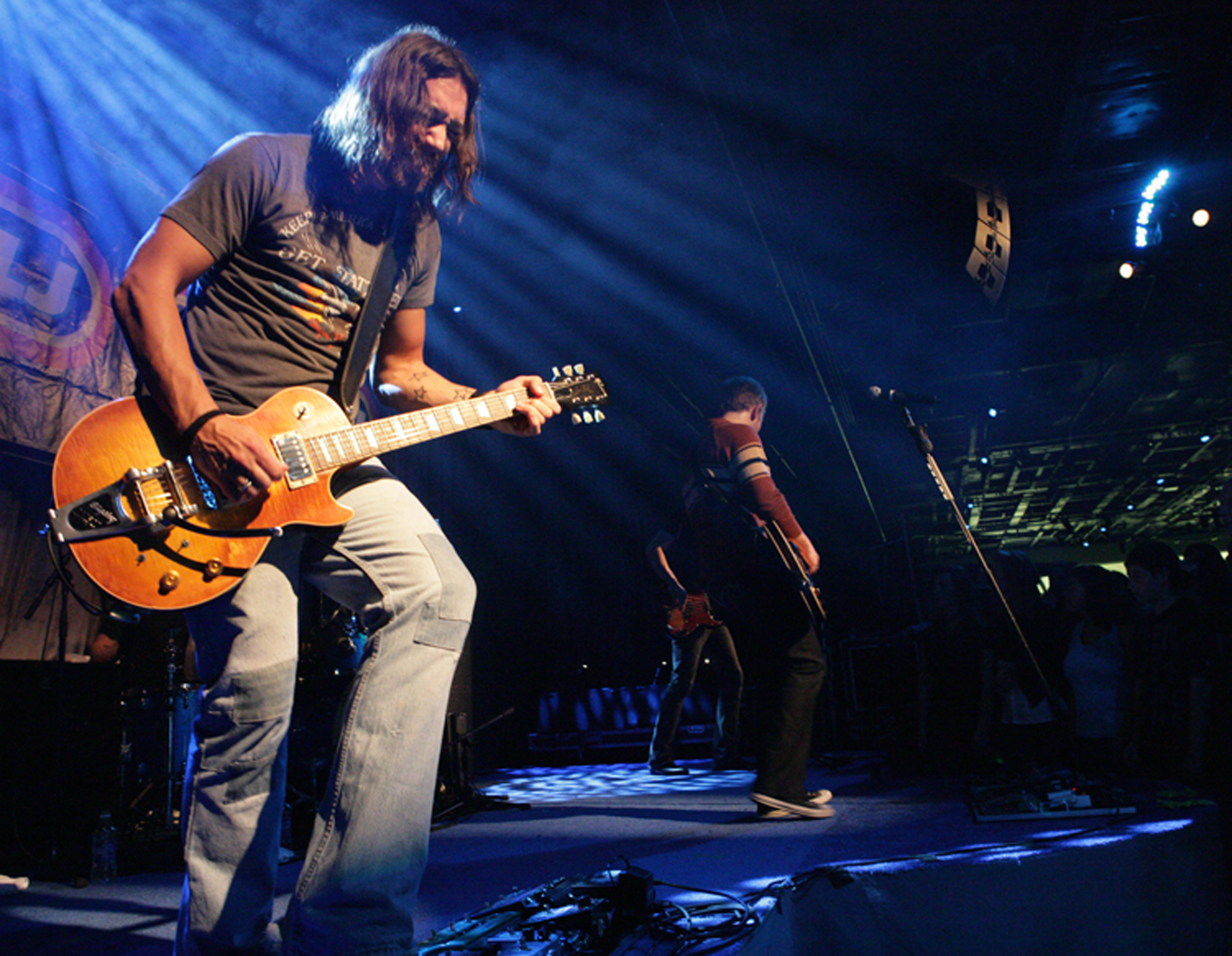 The Los Angeles rock band "Lifehouse" puts on a concert with sailors of USS Bataan and New York residents .